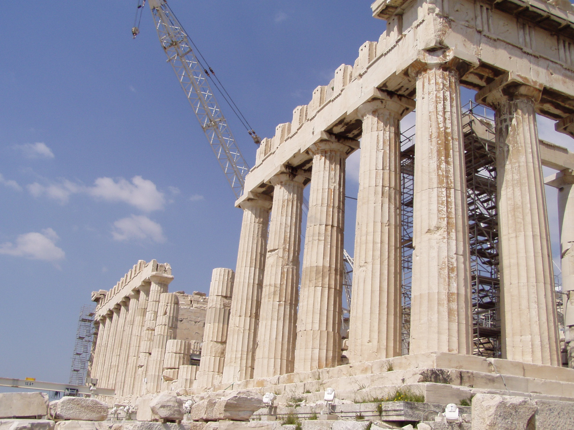 This is the southern side of the Parthenon at the Acropolis in Athens.